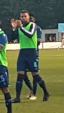 Canadian soccer player Chrisnovic N'sa (right, #6) and other players of the HFX Wanderers after a 2019 Canadian Championship match at Wanderers Grounds in Halifax, Nova Scotia, on 10 July 2019.